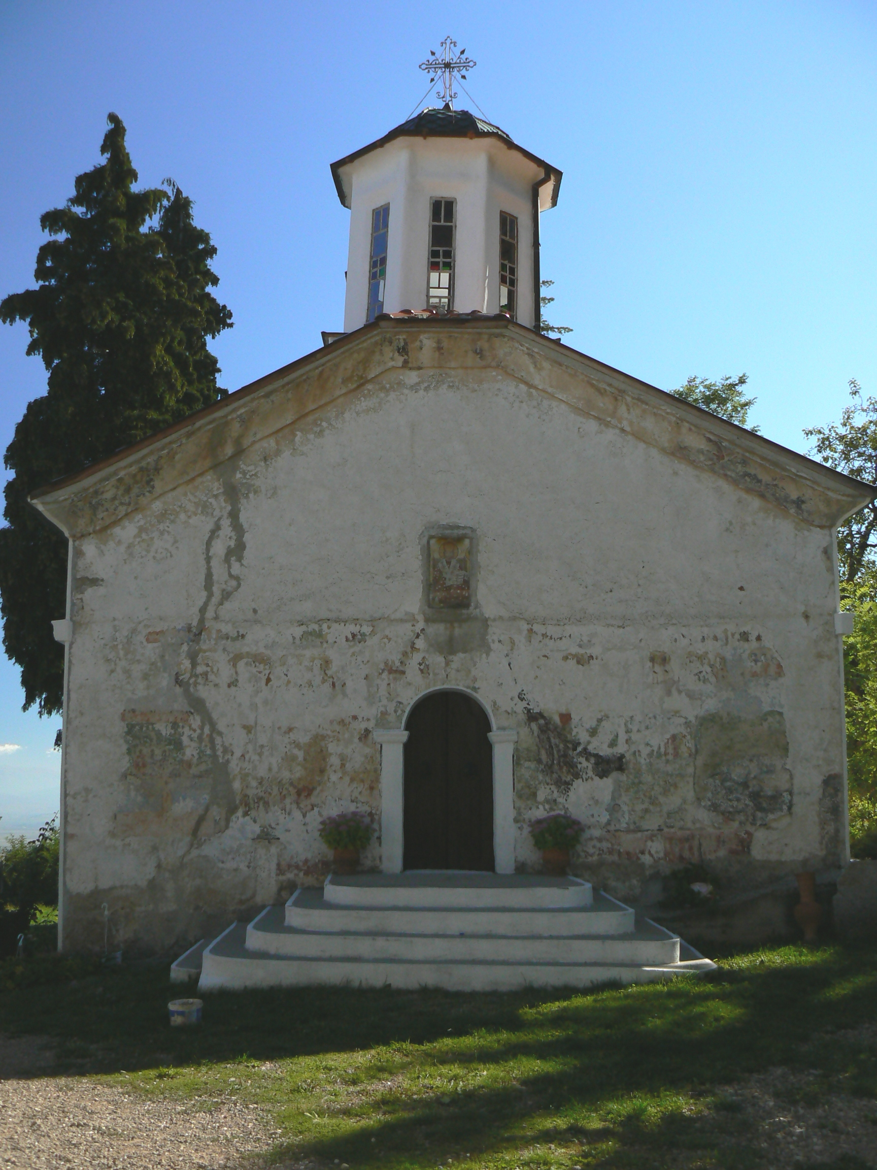 Lozen monastery "Saint Spas", Bulgaria